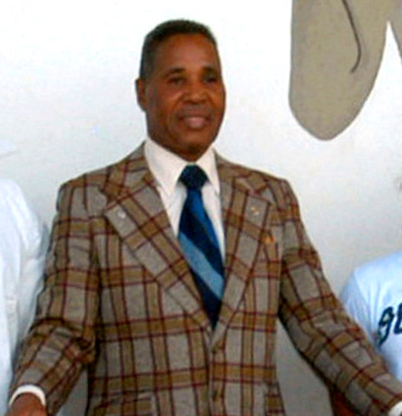 Panama's World Boxing Champion, Ismael Laguna at the Ismael Laguna Academy of Boxing Center (Academia de Boxeo Ismael Laguna) for youths in Colon, Panama on Aug. 23, 2006. (U.S. Navy photo by Mass Communication Specialist Seaman Finley Williams) (Released) (excerpt from the original text)